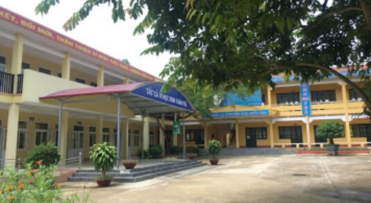 Trường THCS Khe Mo